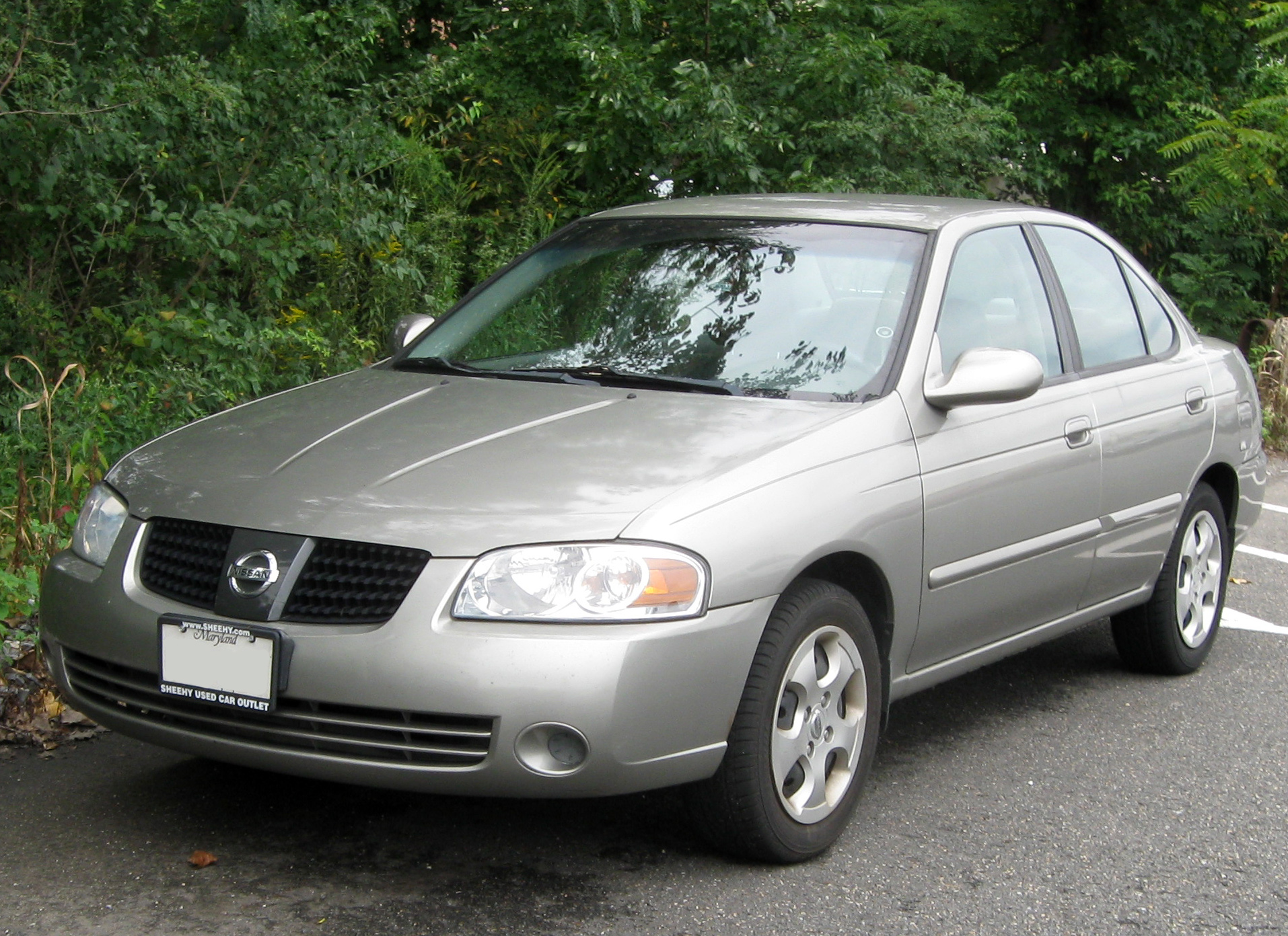 2004-2006 Nissan Sentra photographed in College Park, Maryland, USA.